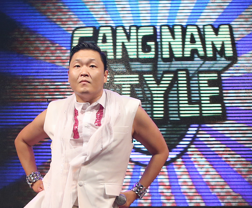 PSY ‘Gangnam Style’ at Seoil College, Seoul